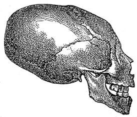 Artificially shaped skull (presumably Migrations Period, from Crimea), but in all probability not from Avar! The picture, embedded in the article "Makrokephalie", is explained as artificially shaped Avar skull. The text mentions, regarding the picture, skull finds from Crimea, which "were assumed to originate from the Avars or Huns". This interpretation is doubtful an based on unsufficient knowledge in 1889. Skull deformations are not common any more in Avar times.